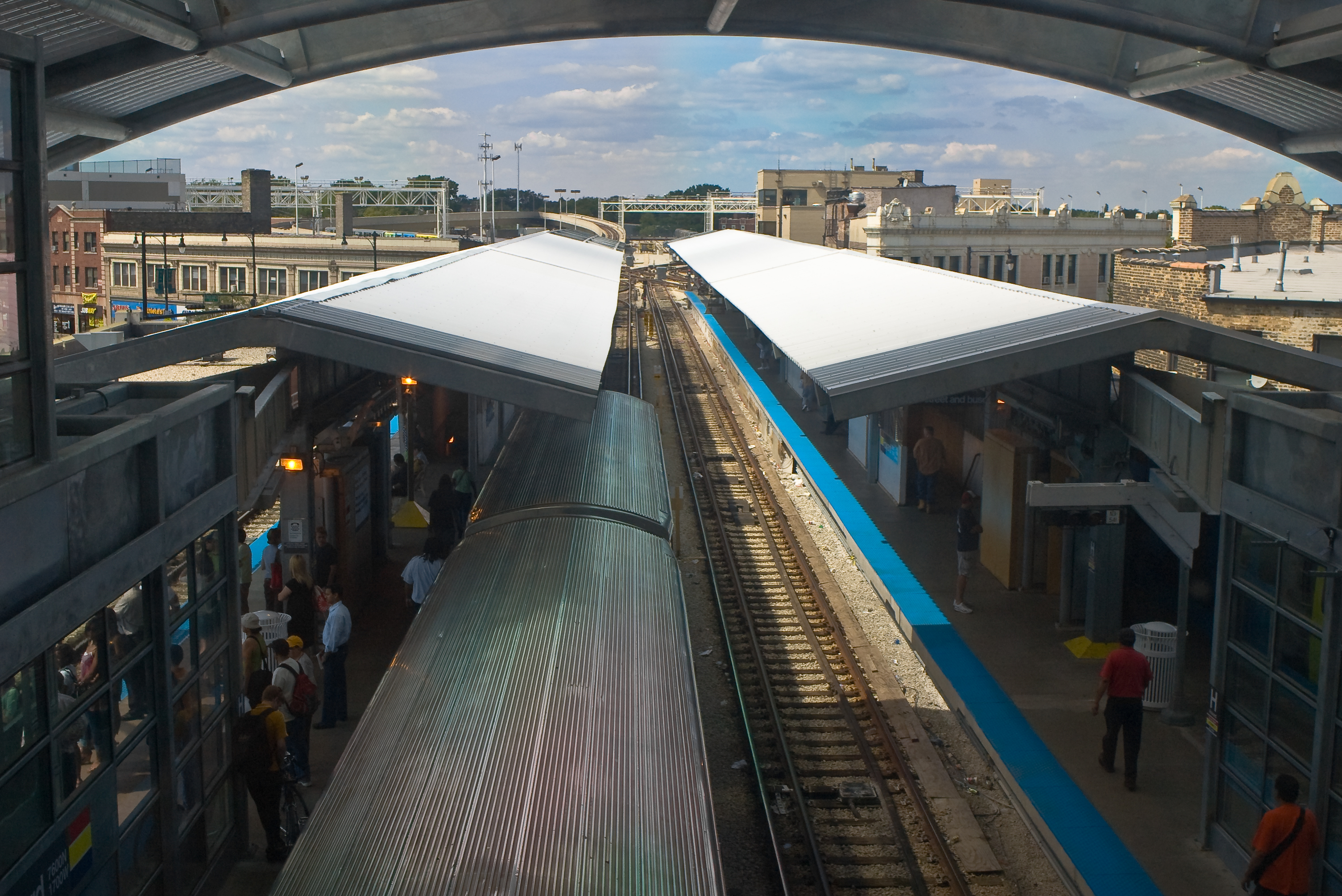 Howard station on the CTA Red, Purple, and Yellow lines